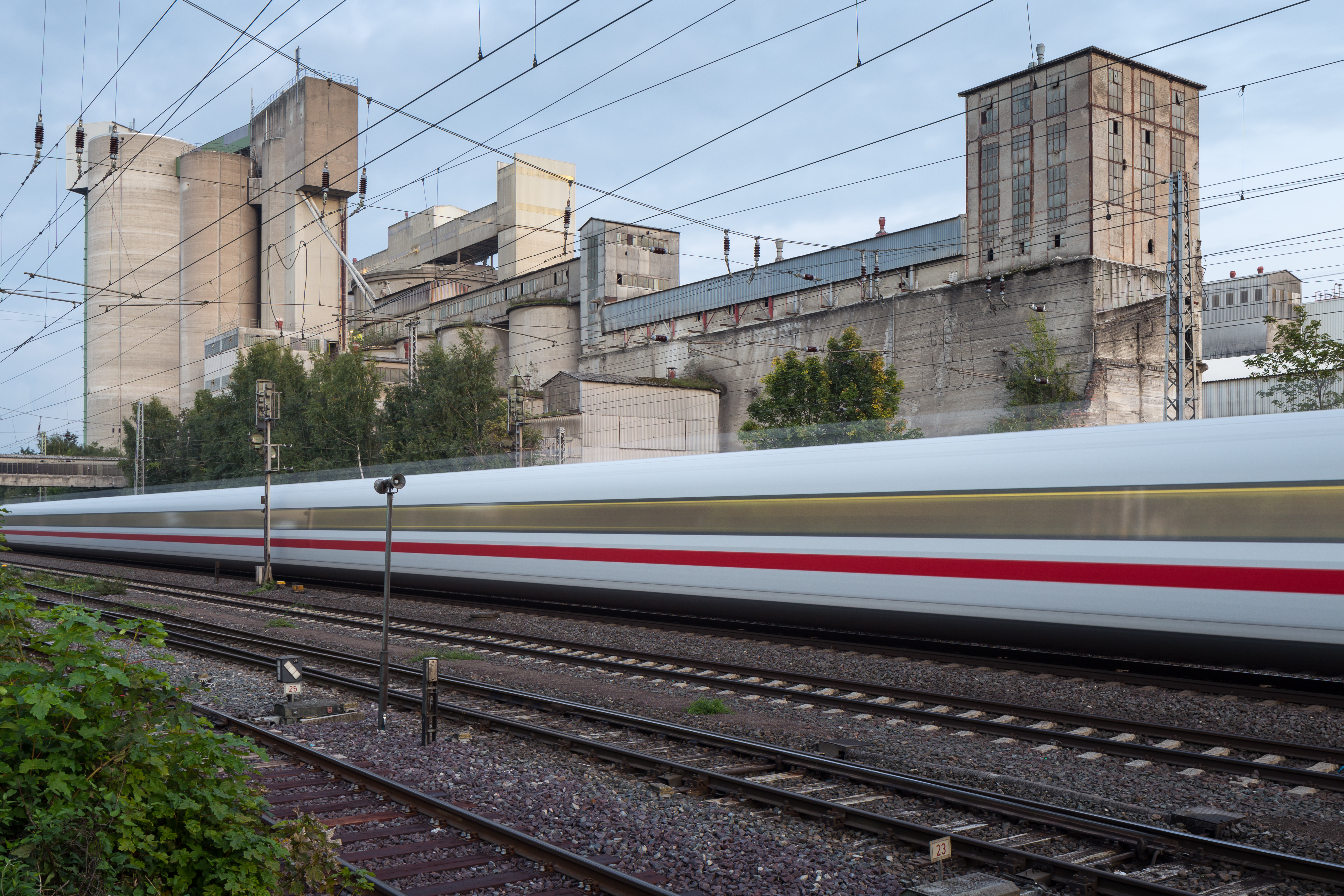 Cement works "Teutonia" located at Lohweg in Misburg-Sued quarter of Hannover, Germany. The freight train bypass is visible in the foreground, an "ICE Sprinter" train is passing by.